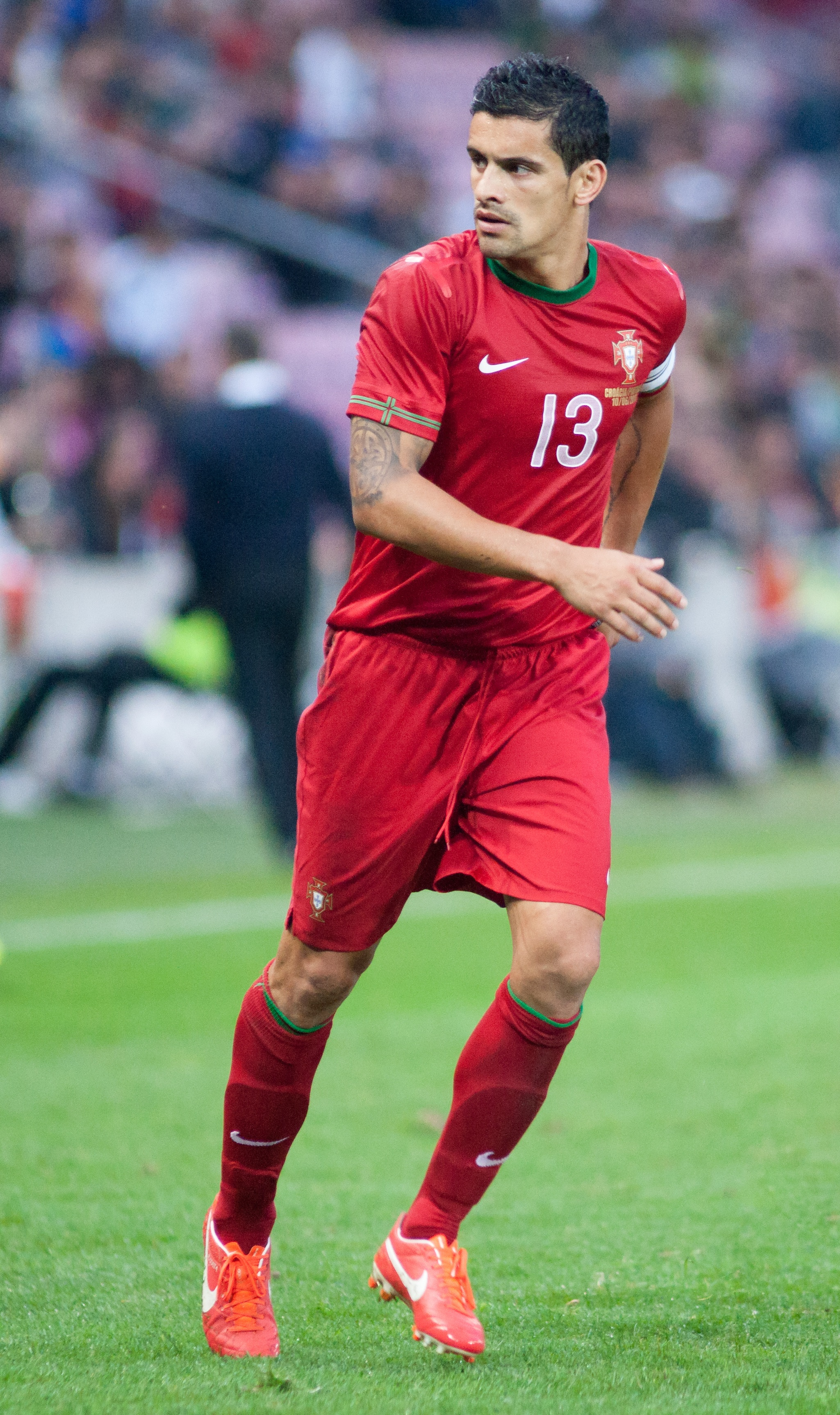 Ricardo Costa - Croatia vs. Portugal, 10th June 2013